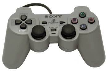 DualShock Controller